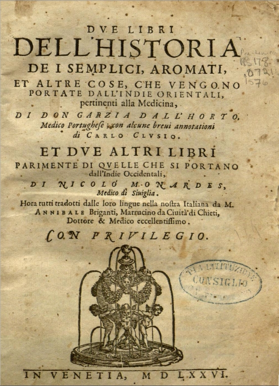 Title page of Annibale Briganti's Italian translation of Orta and Monardes